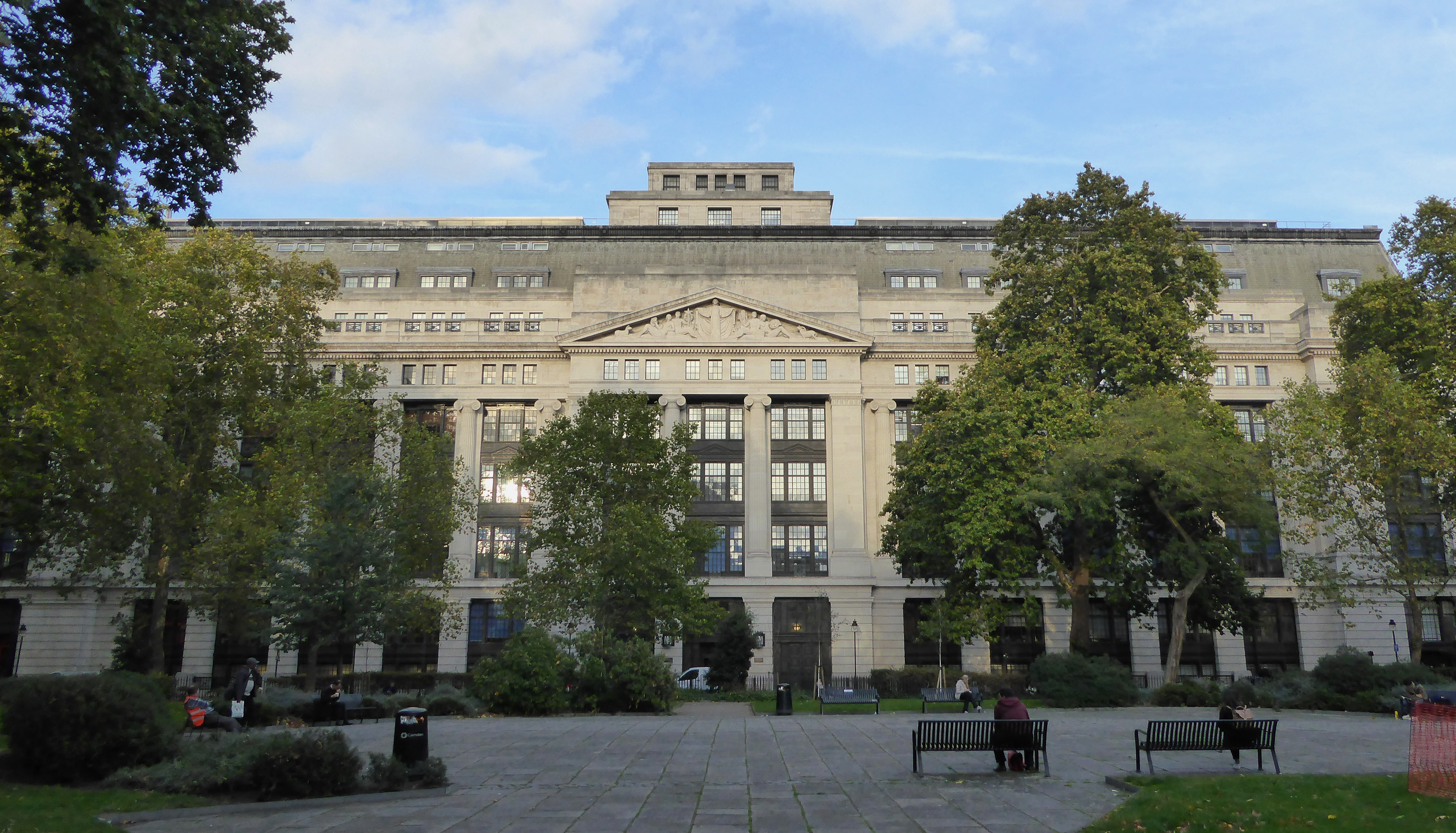 Victoria House in Bloomsbury, London Borough of Camden, as seen from the adjacent Bloomsbury Square.